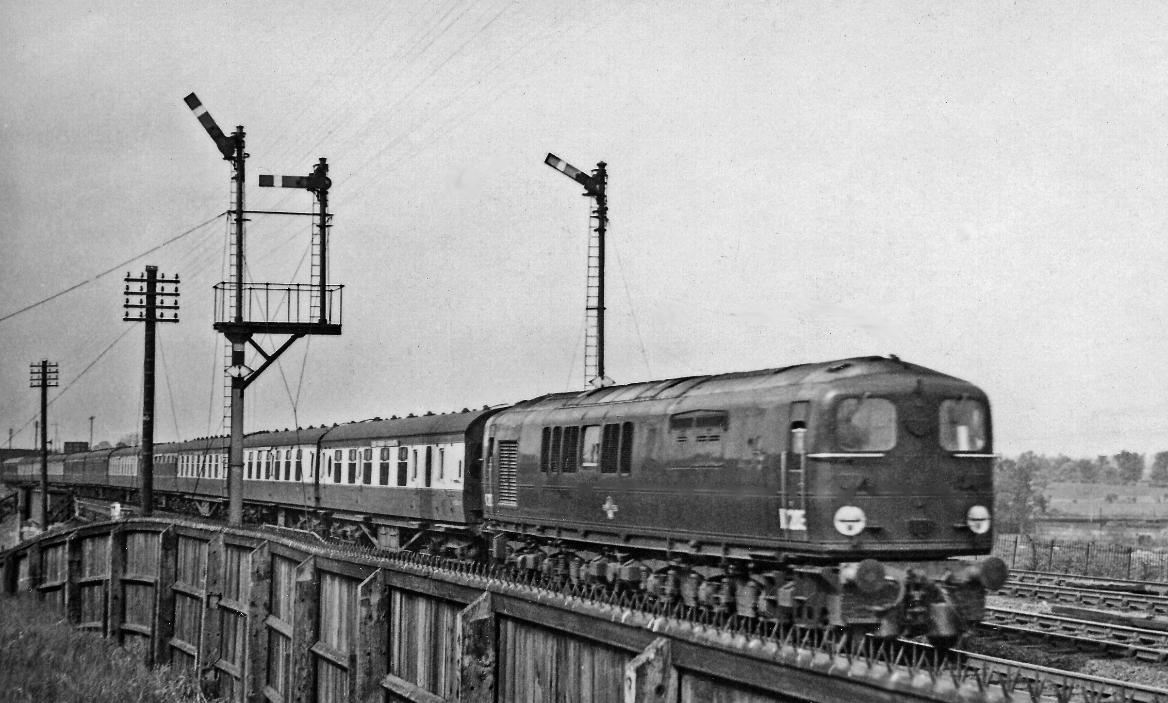 Pioneer SR Diesel on Up express near Wolverton. View northward, towards Wolverton, Rugby etc.; ex-London & North Western WCML. The train is the 13.55 Wolverhampton - Euston express, hauled by the third SR Bulleid/English-Electric 1-Co-Co-1 Diesel, No. 10203, precursor of the BR Type 4 (Class 40) express locomotives introduced in 1958. Nos. 10201-3 came onto the LMR in 4/55 and lasted until 1963. (See also TQ0562 : Pioneer SR Diesel on the Down 'Royal Wessex' express at West Weybridge).